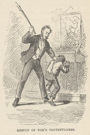 Illustrations de The Adventures of Tom Sawyer, 1876.